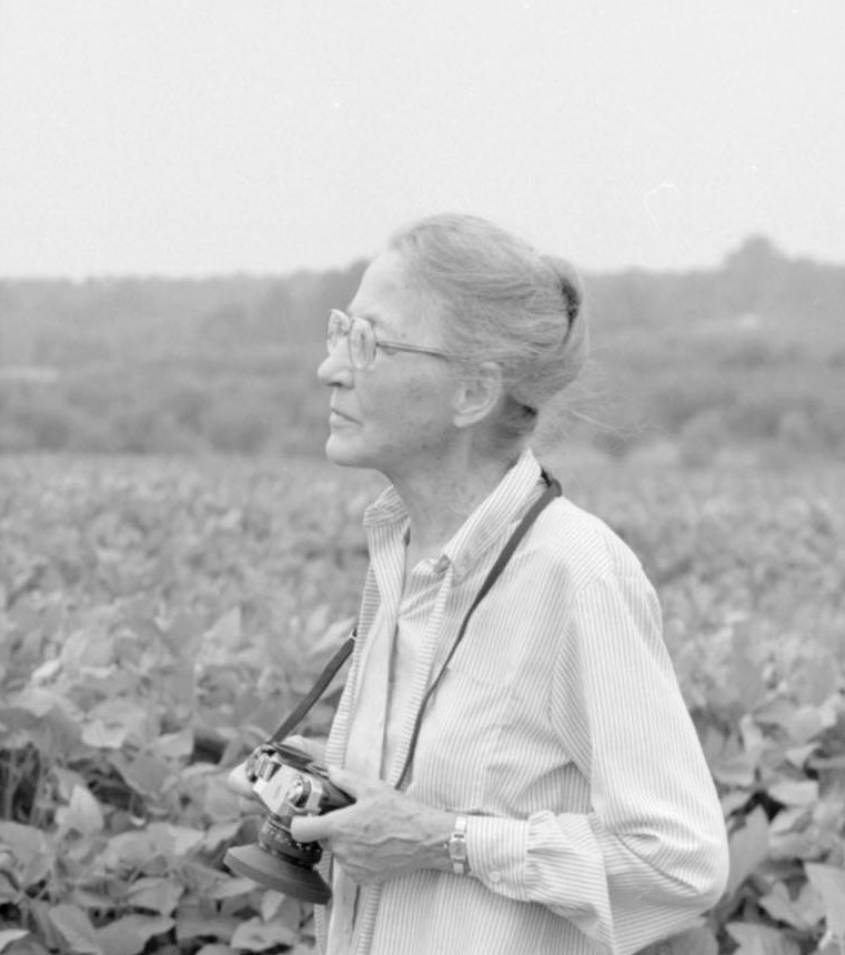 Title: Photographer Louise Boyle crop from pic of her talking to a grower in front of crops, August 1982 Date: 1982 Photographer: Unknown Photo ID: 5859pb2f40in800g Collection: Louise Boyle. Southern Tenant Farmers Union Photographs, 1937 and 1982 Repository: The Kheel Center for Labor-Management Documentation and Archives in the ILR School at Cornell University is the Catherwood Library unit that collects, preserves, and makes accessible special collections documenting the history of the workplace and labor relations. Notes: Copyright: The copyright status of this image is unknown. It may also be subject to third party rights of privacy or publicity. Images are being made available for purposes of private study, scholarship, and research. The Kheel Center would like to learn more about this image and hear from any copyright owners who are not properly identified so that we may make the necessary corrections. Tags: Kheel Center for Labor-Management Documentation and Archives,Cornell University Library,Agriculture, Farm Workers